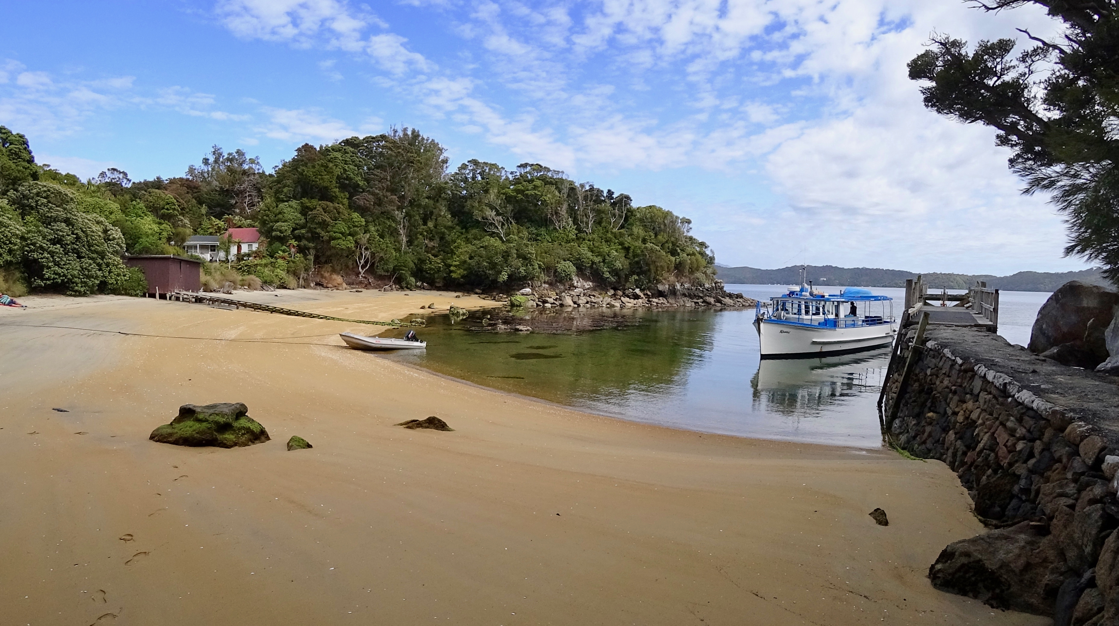 Ulva Island, Post Office Bay wharf area with ferry taken on 26th January 2020